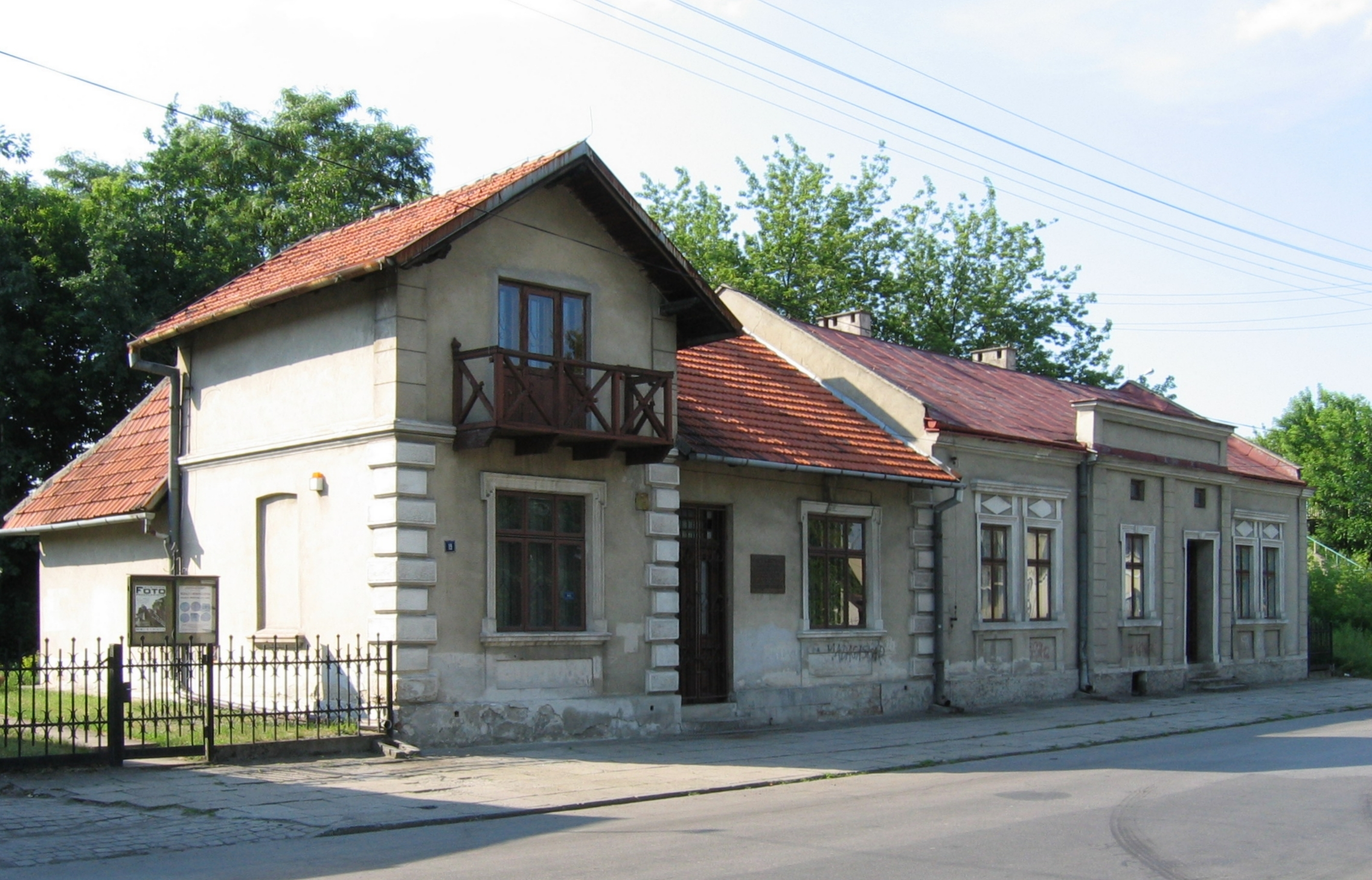 Jadernówka - branch of Regional Museum in Mielec, formerly home of August Jaderny (photographer)